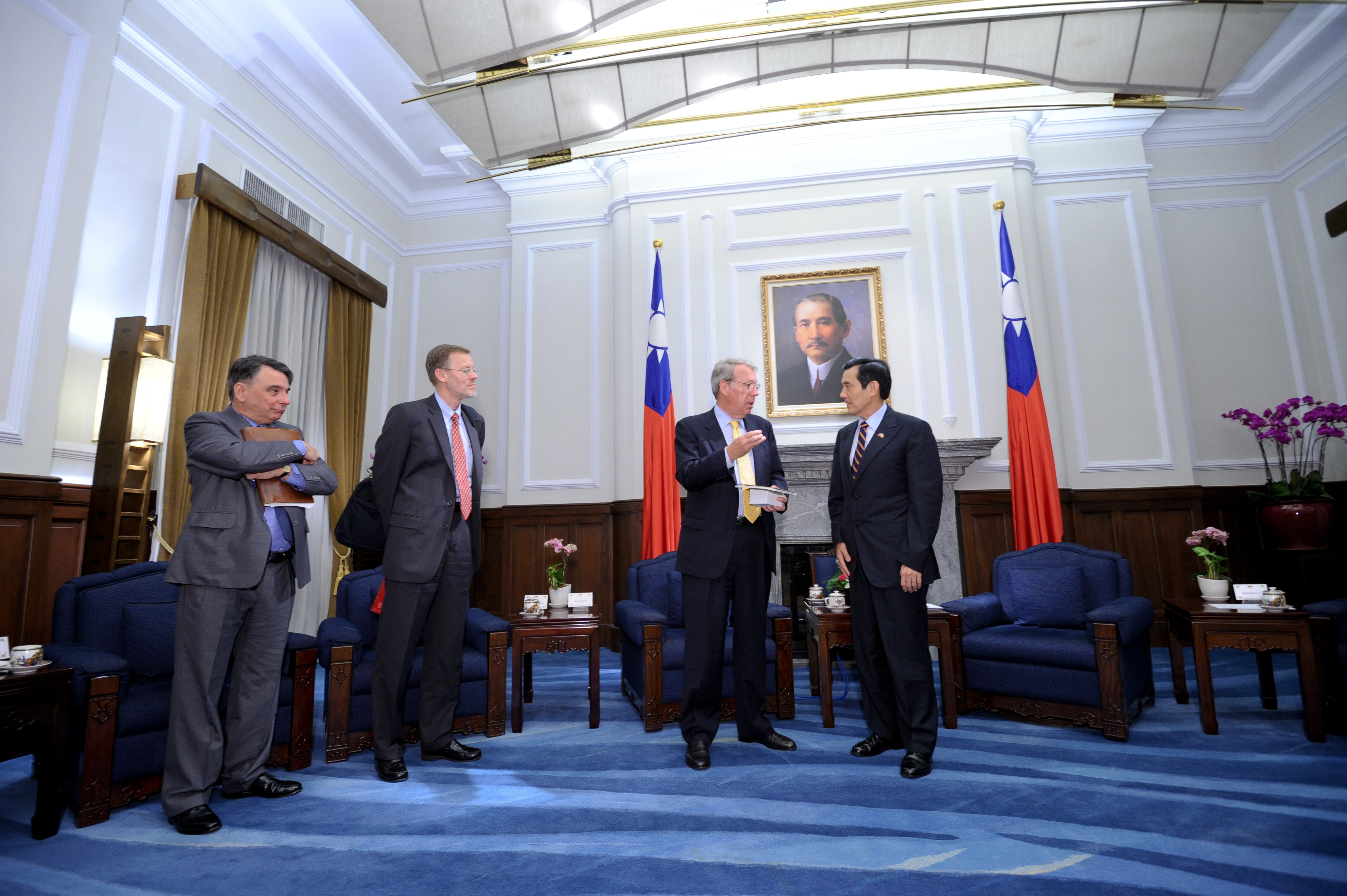 President Ma meets AIT Chairman Raymond Burghardt and Director of US State Department's Office of Taiwan Coordination W. Brent Christensen.